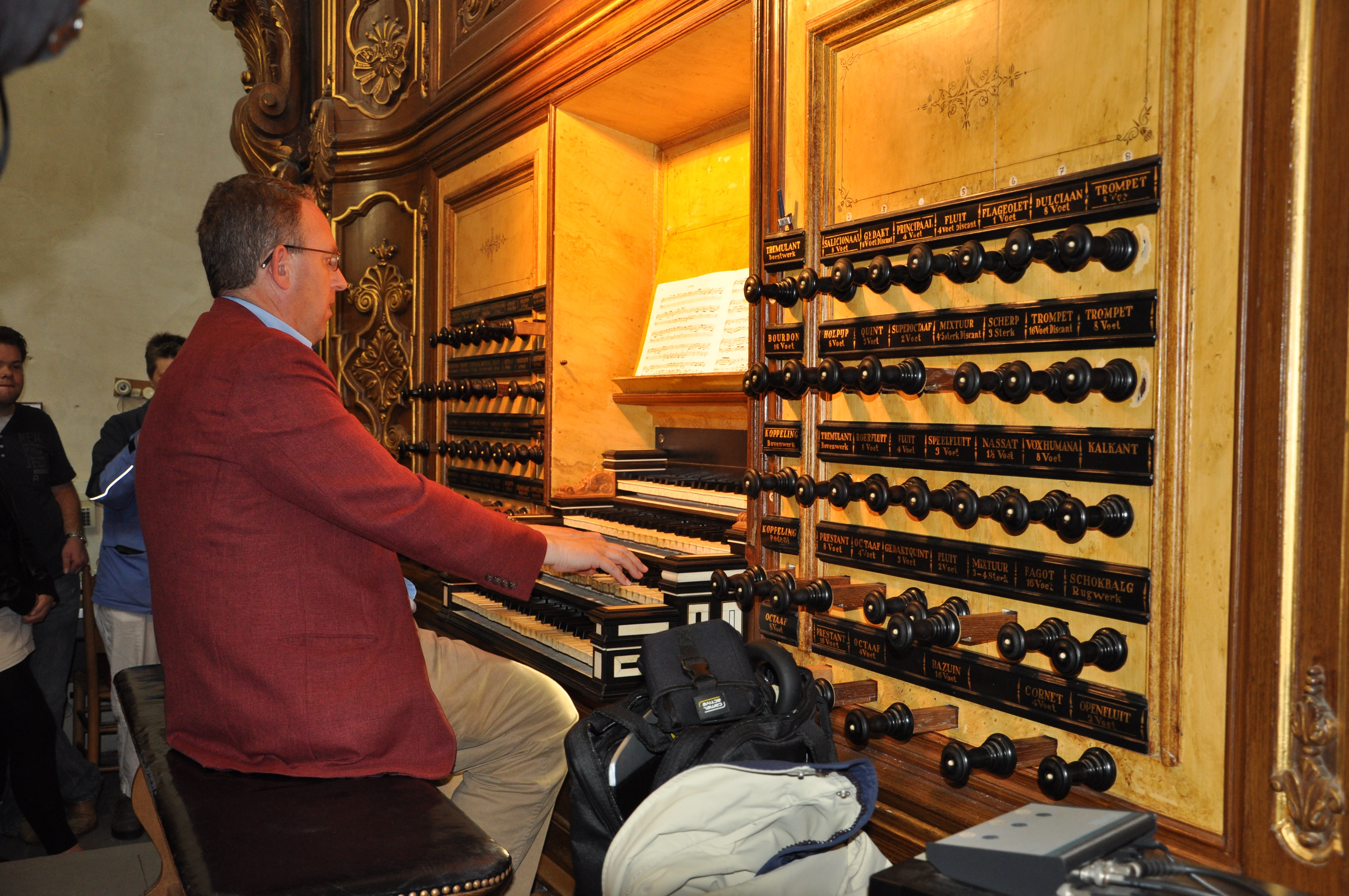 Organ at the Bovenkerk at Kampen (the Netherlands)